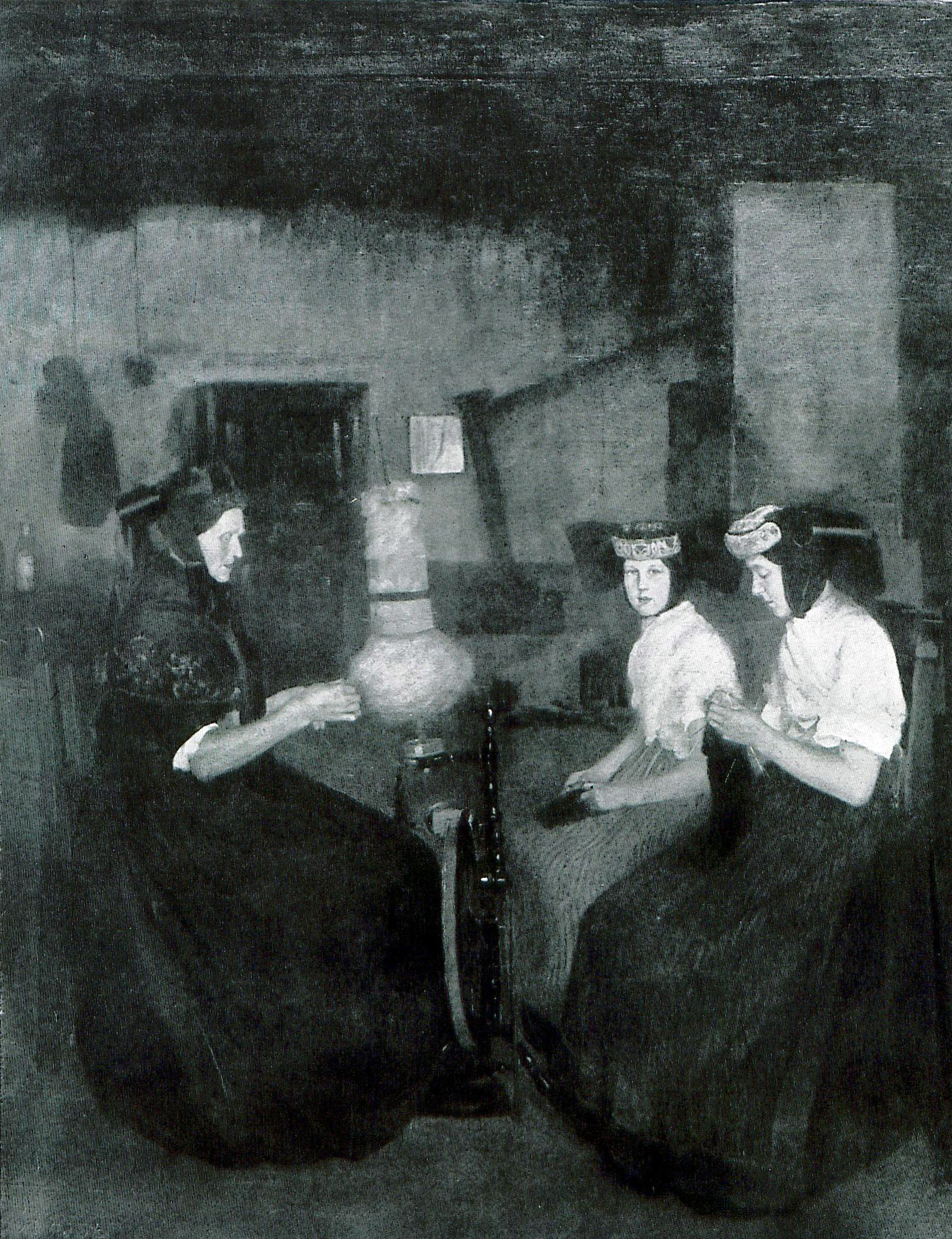 Painting "Bückeburger Bäuerinnen" published in Deutsche Kunst und Dekoration,17/1905